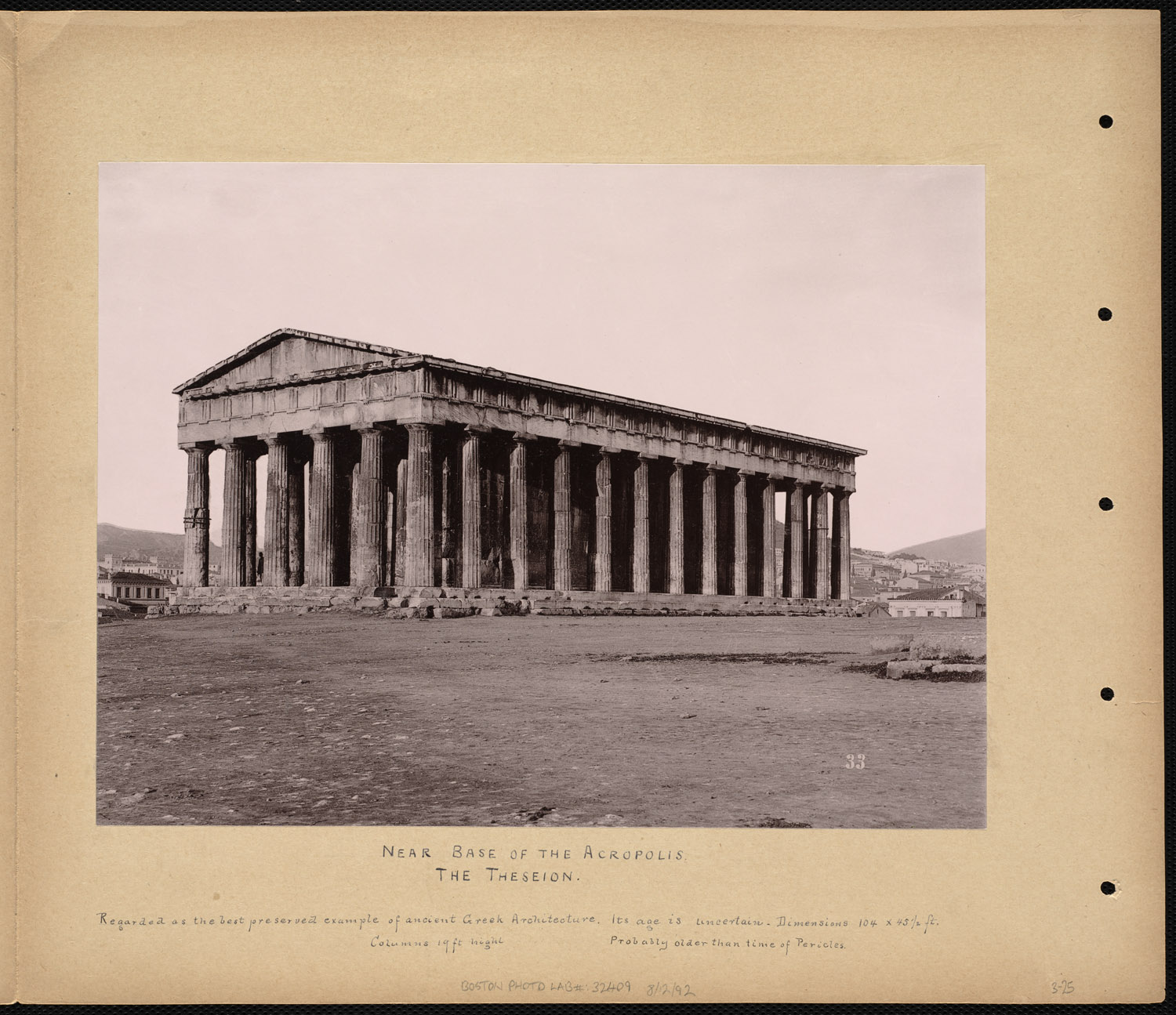 BPLDC no.: 08_04_000408 Page Title: Near base of the Acropolis. The Theseion Collection: Tupper Scrapbooks Collection Album: Volume 3: Athens. Call no.: 4098B.104 v3 (p. 25) Creator: Tupper, William Vaughn Genre: Scrapbooks; Albumen prints Extent: 1 photographic print mounted on page : albumen ; page 33 x 39 cm. Description: Scrapbook page contains one photograph of the Theseion, taken near the base of the Athens Acropolis. Annotated information describes the architecture and history of the site. Transcription: Regarded as the best preserved example of ancient Greek architecture. Its age is uncertain. Dimensions 104 x 45 1/2 ft. Columns 19 ft high. Probably older than time of Pericles. Notes: Page description supplied by cataloger, derived from captions and/or annotated information.; Caption on image: 33 BPL Department: Print Department Rights: No known restrictions. Flickr data on 2011-08-26: Camera: Sinar AG Sinarback 54 FW, Sinar m License: CC BY 2.0 User: Boston Public Library Boston Public Library